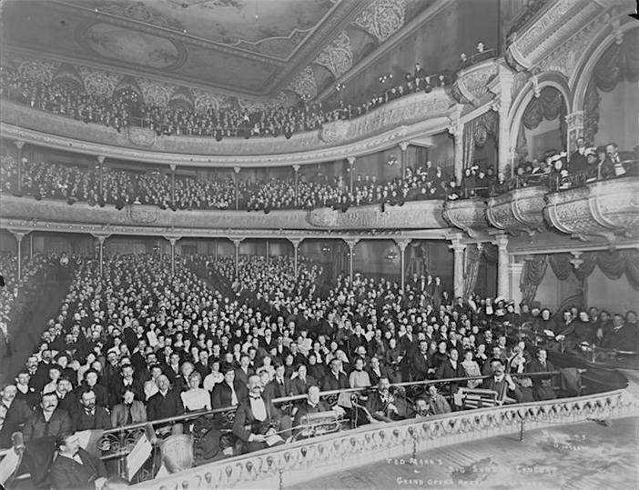 Written on the photo: "Ted Mark's Big Sunday Concert, Grand Opera House, New York"